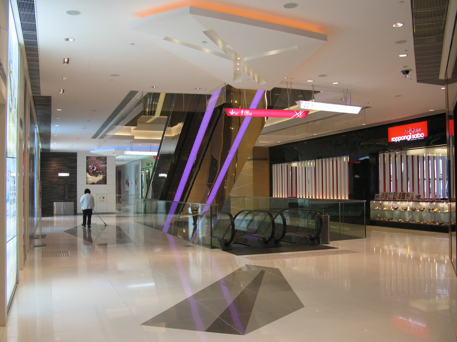 Level L5, The ONE